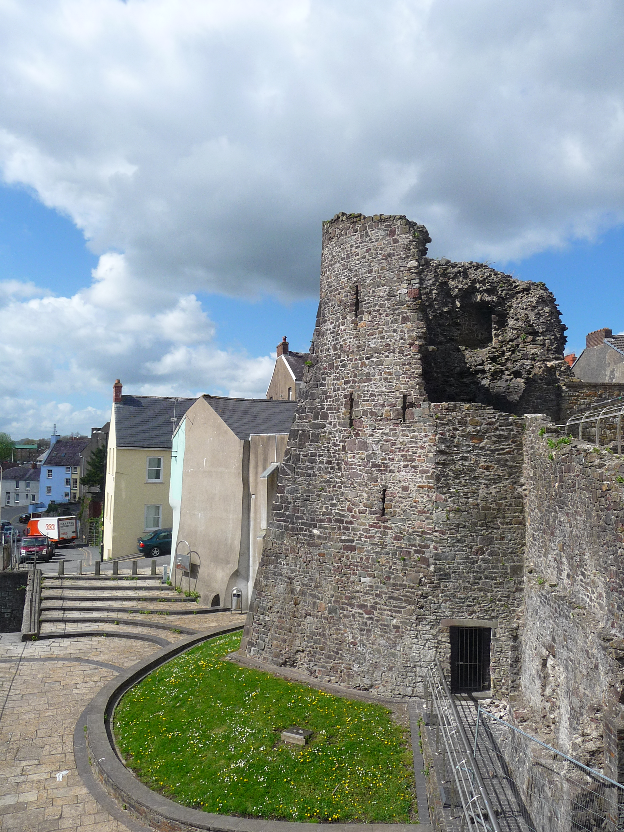 Carmarthen Castle.